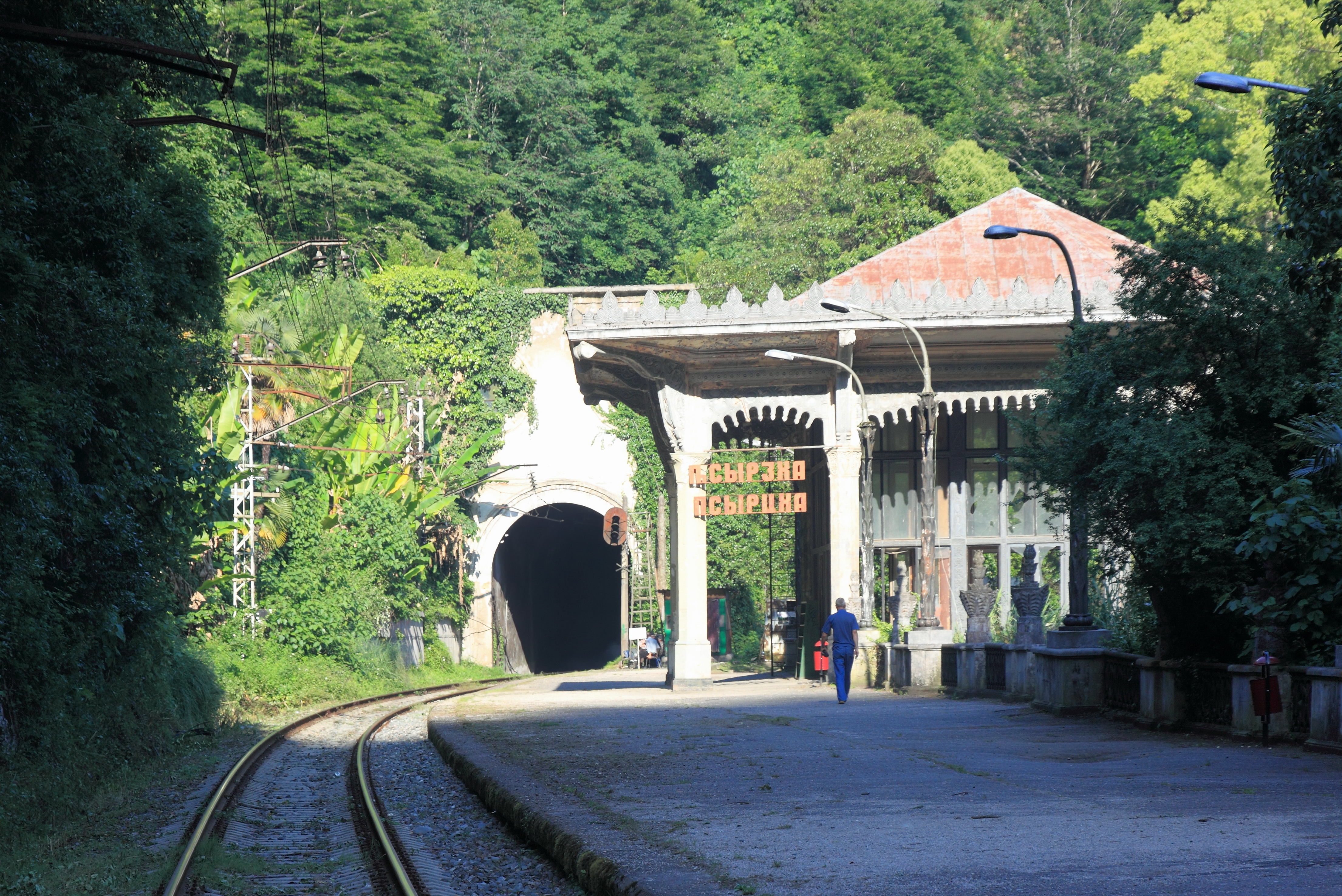 Psyrtskha railway platform. New Athos, Gudauta District, Abkhazia.